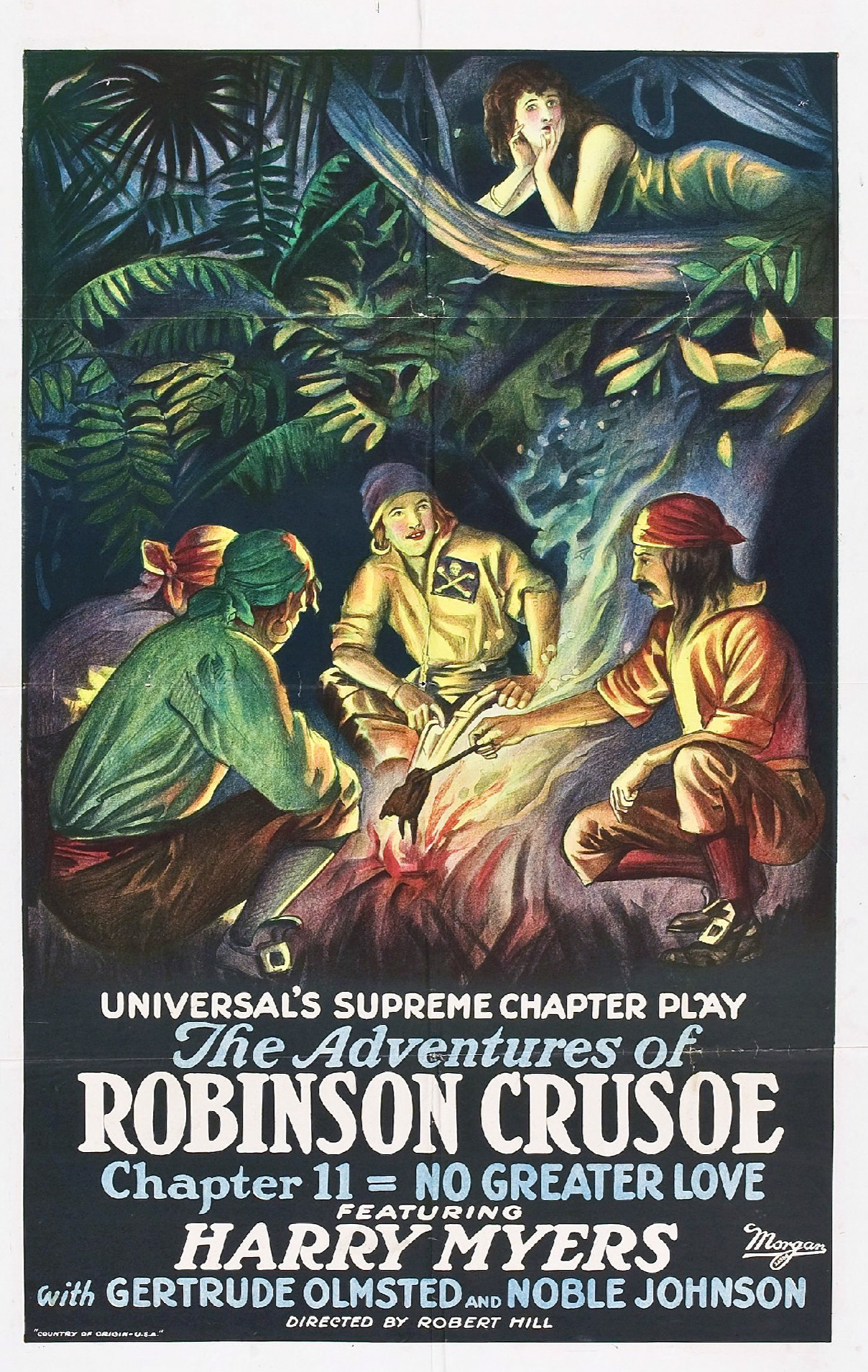 Poster for the American film serial The Adventures of Robinson Crusoe (1922) episode 11 "No Greater Love".